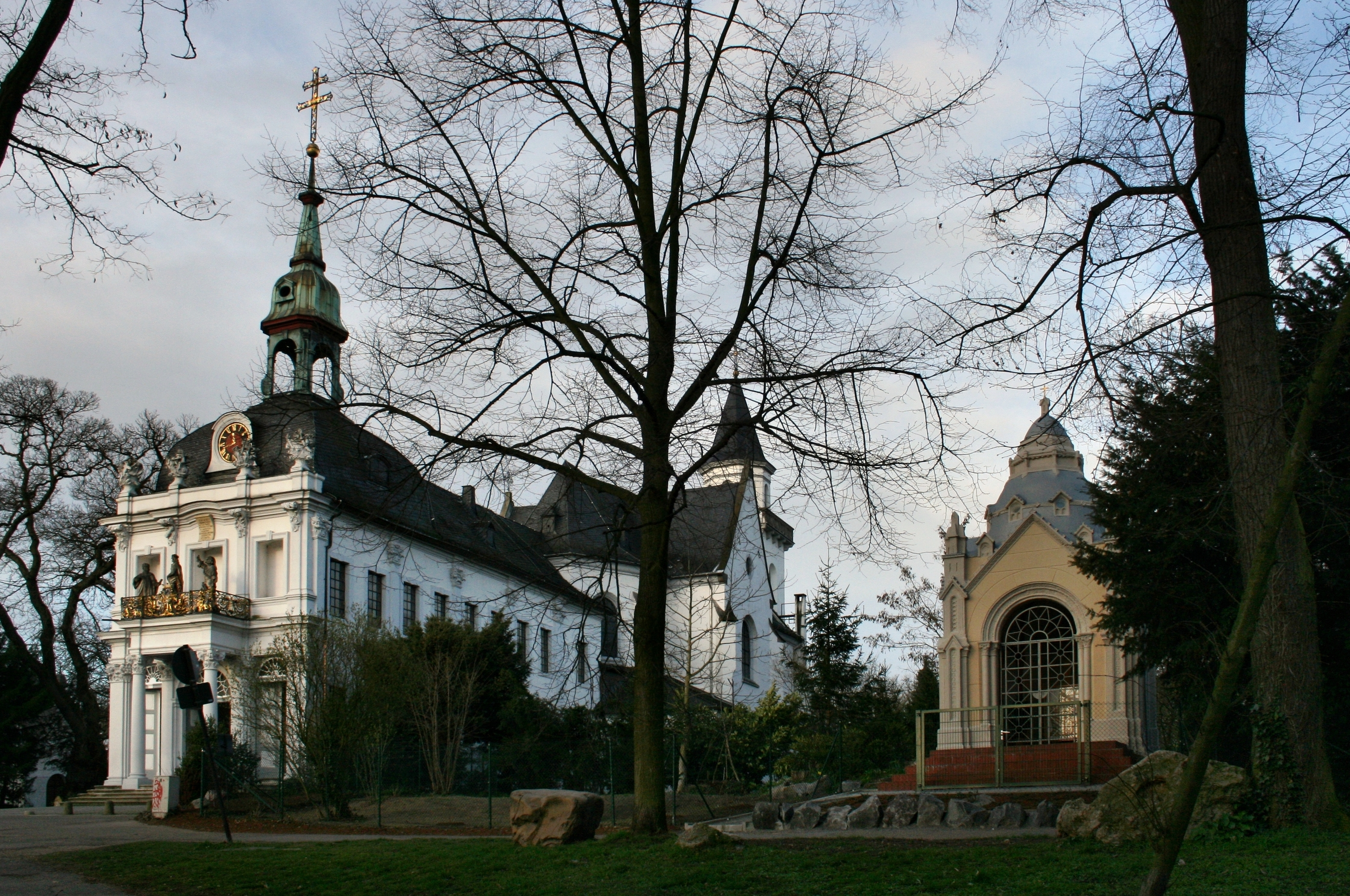 Germany, Bonn: Installation of Kreuzberg Church with Holy Staircase on Kreuzberg (Cross Mountain) in Bonn-Endenich, to the right: Freundeskapelle (friends chapel).